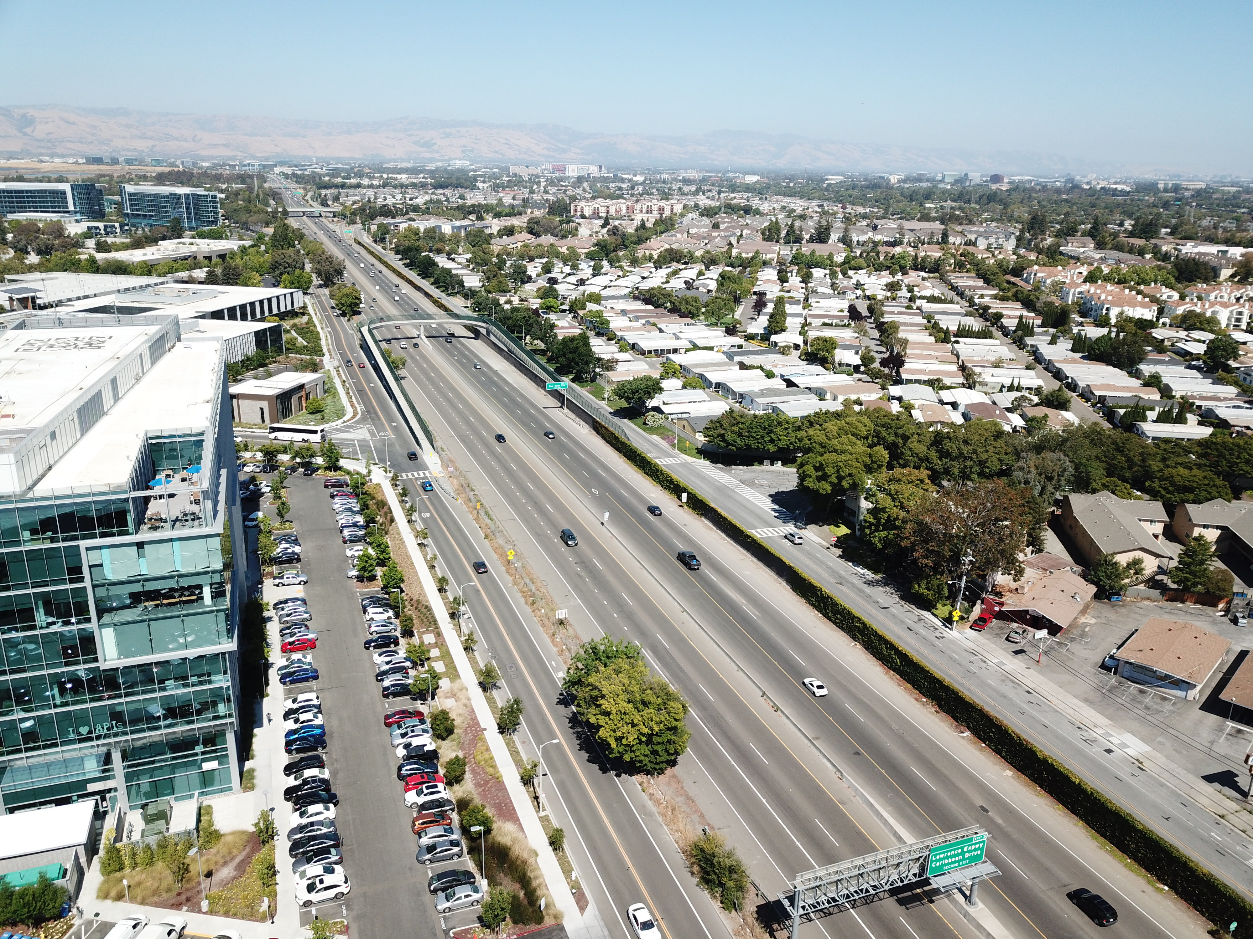 An aerial view of California State Route 237, looking east, taken from a quad-copter drone above the parking garage on the north side of the road, at Bordeaux Drive and W Moffett Park Drive, Sunnyvale.